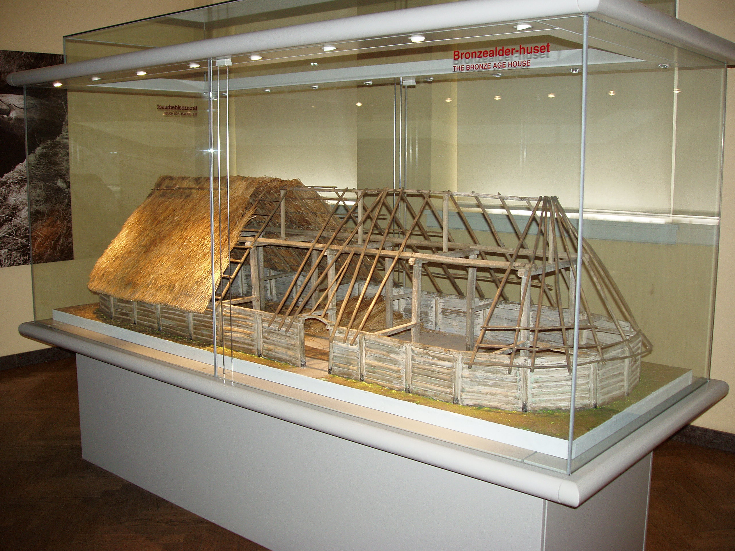 Replica of the Bronze Age House in Nationalmuseet in Copenhagen.